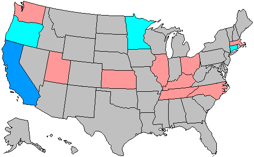 Summary of party change of U.S. house seats in the 1962 House election. Stripes indicate a tie between the gains of two or more parties. Legend: 6+ Democratic seat pickup 3-5 Democratic seat pickup 1-2 Democratic seat pickup 1-2 Republican seat pickup 3-5 Republican seat pickup 6+ Republican seat pickup Note: years ending in 2 may have inconsistent results due to redistricting.